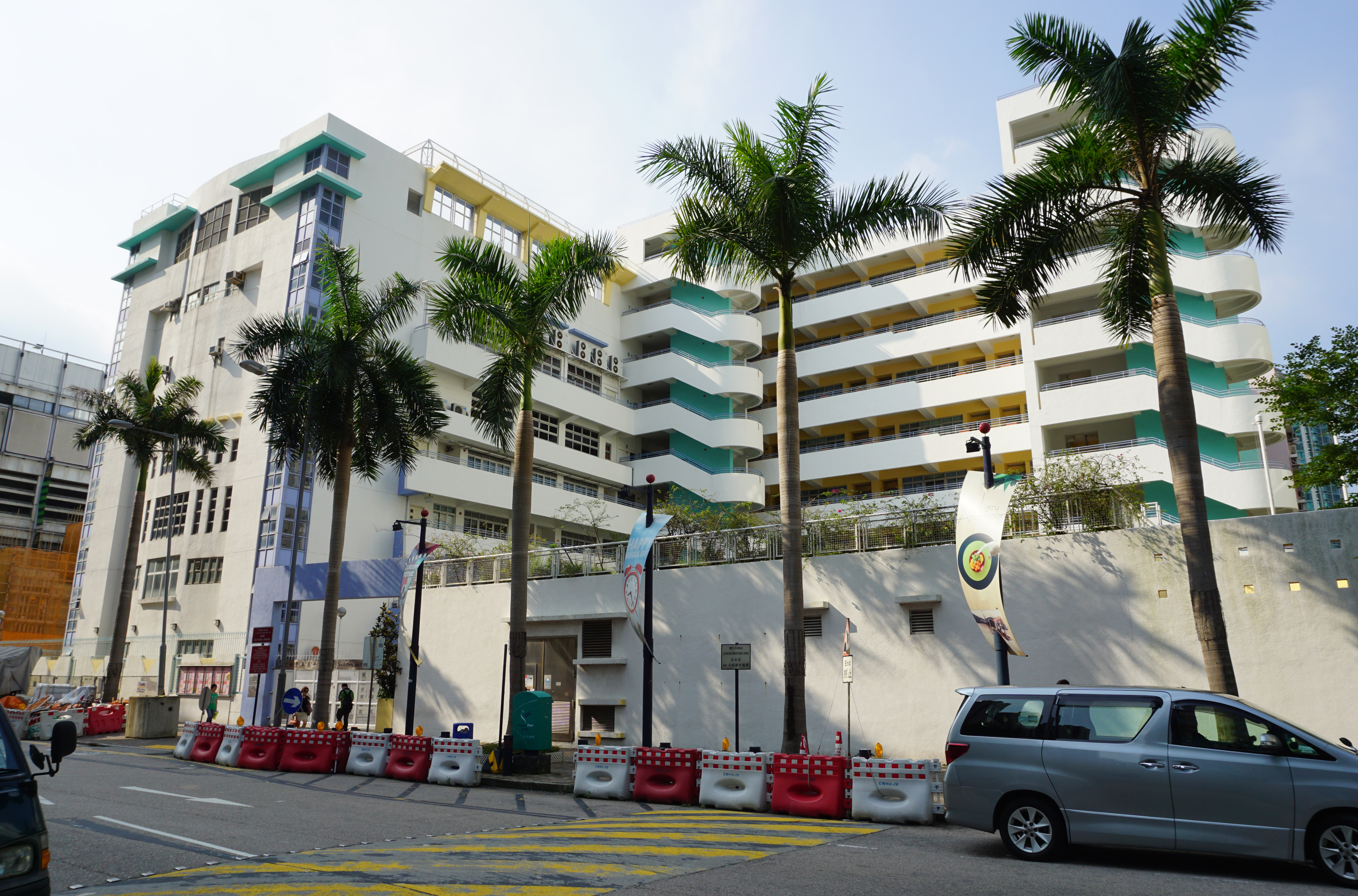 Sheng Kung Hui Fung Kei Millennium Primary School in Whampoa, Hong Kong.